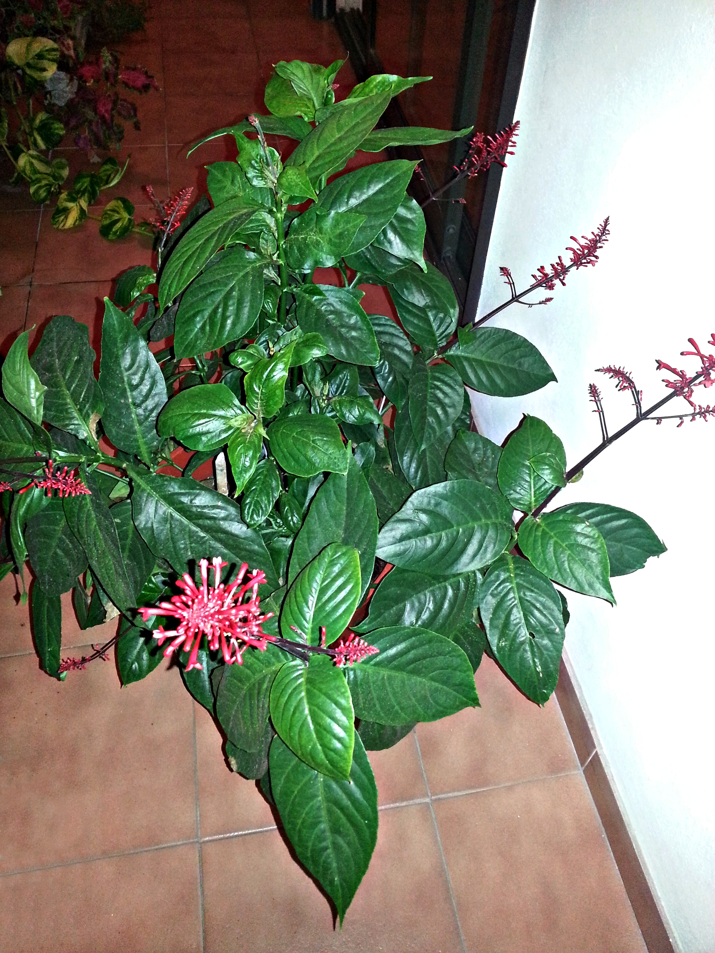 Odontonema cuspidatum (Syn.: Odontonema strictum; Family: Acanthaceae; mottled firespike). Six-month pot-grown plant with terminal spikes of red flowers